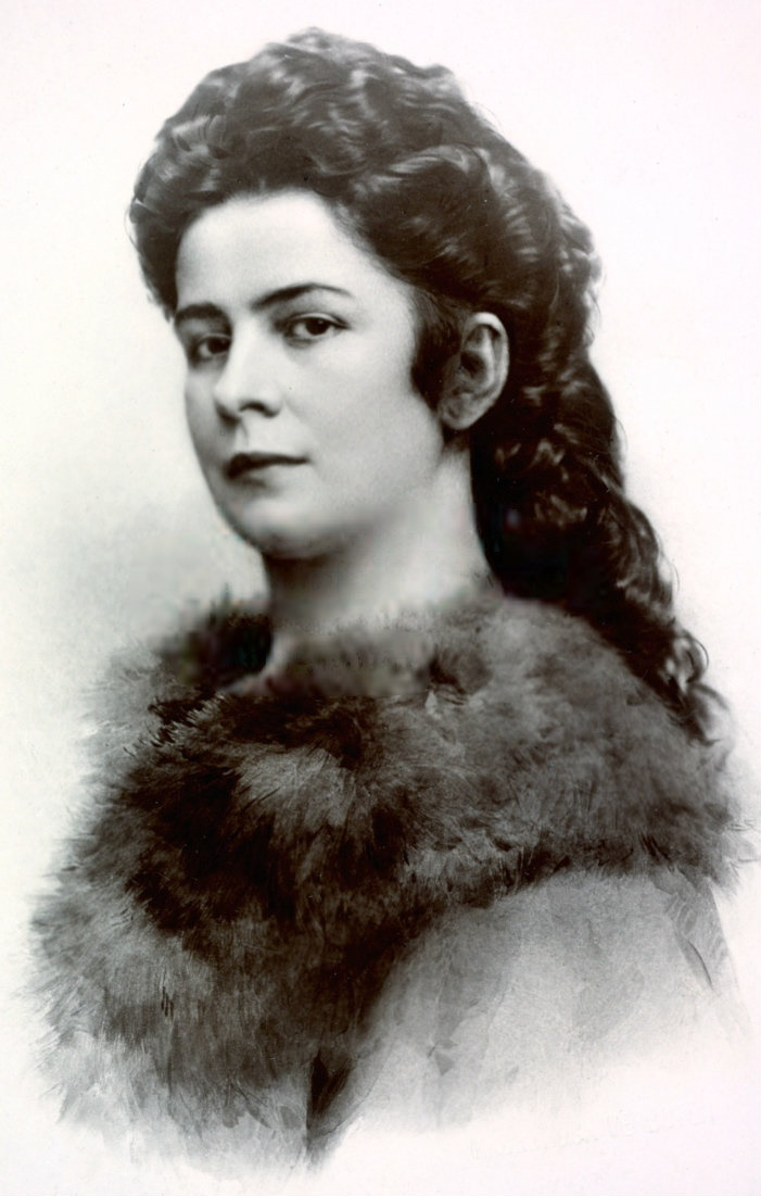 Empress Elisabeth of Austria (1837–1898), bust-length portrait (1897) by austrian photographer Ludwig Angerer, retouched 1898 by Carl Pietzner